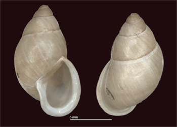 Photo two views of a specimen of Partula clara incrassa from Tiapa (Crampton’s Aoua) Valley, Tahiti, collected by Henry Edward Crampton during his 1906-1909 expeditions (ANSP276080).